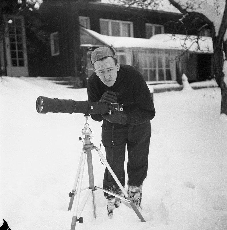 Goran Jarborg, Portrait of photographer Pål-Nils Nilsson at work in the snow, taken on February 20, 1956